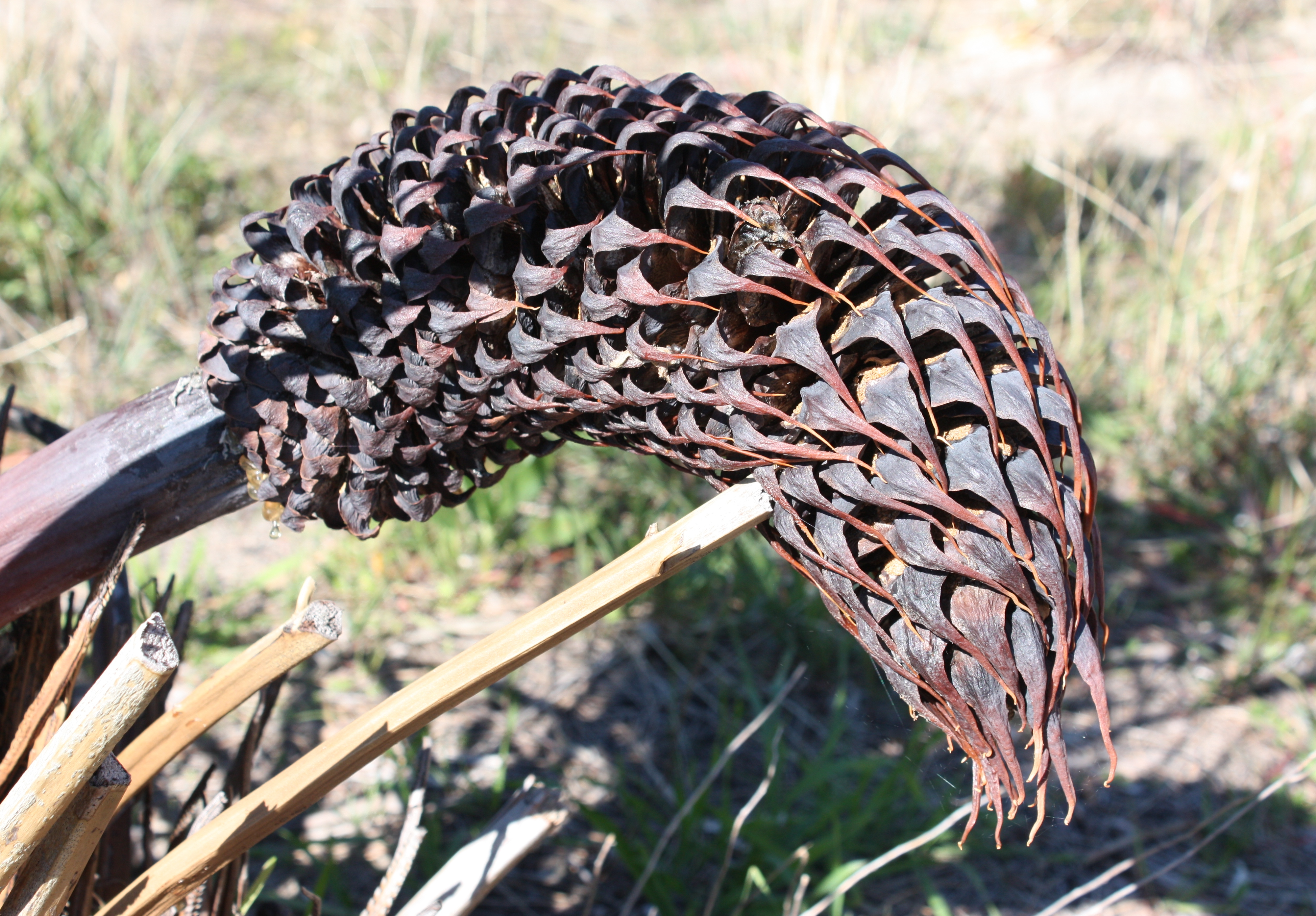 Macrozamia fraseri cone. Photo taken at Wireless Hill Park, Perth, Western Australia